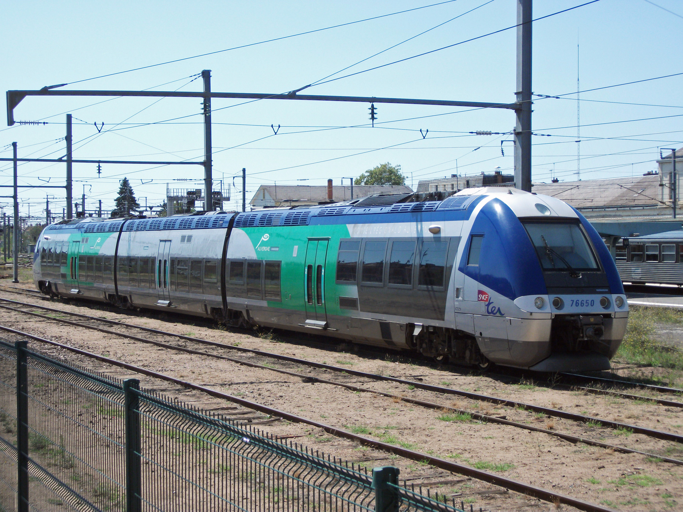 Autorail Grande Capacité X 76650 parked in Moulins-sur-Allier railway station [8850]